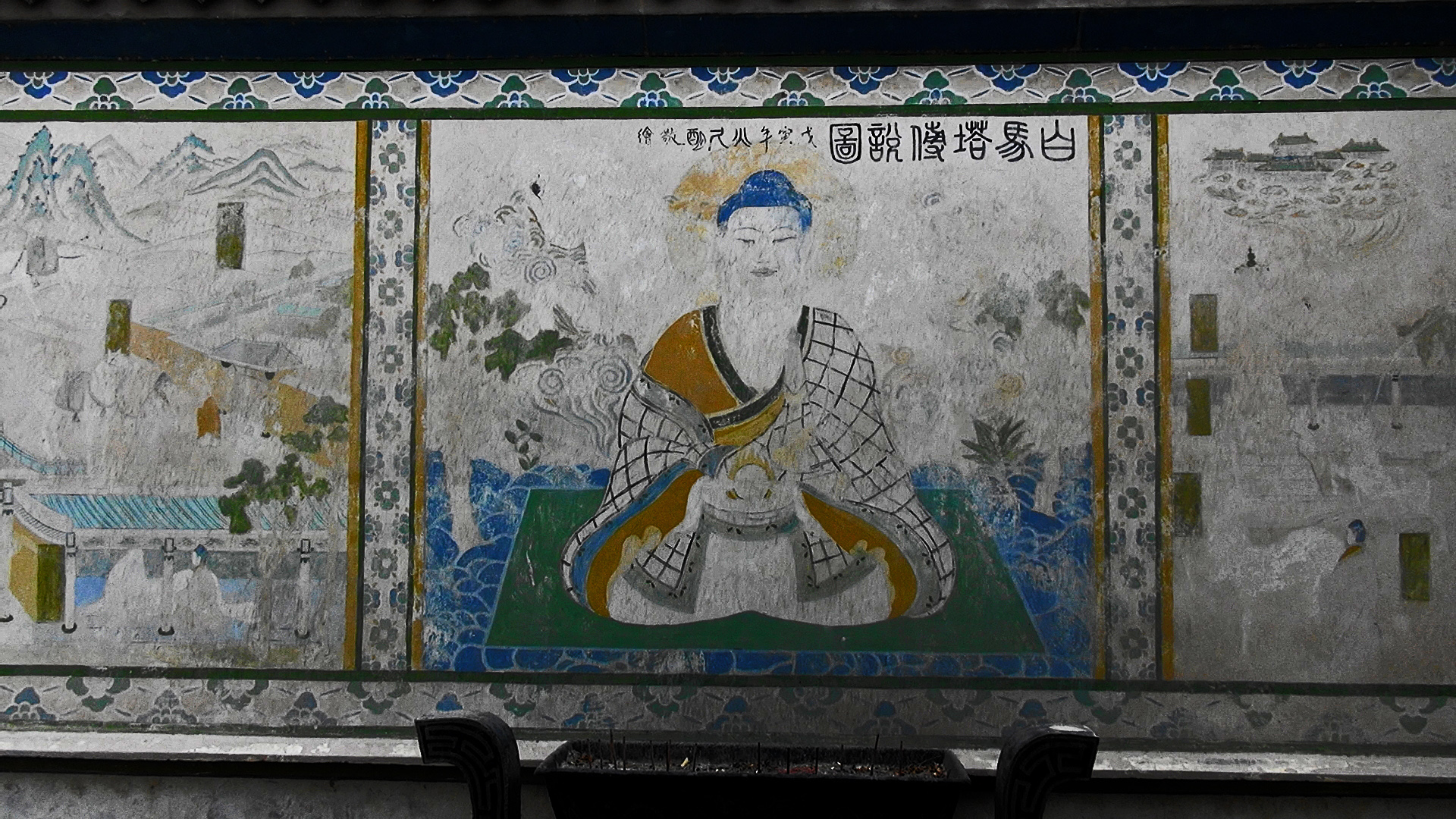 White Horse Pagoda - The monk Kumarajiva